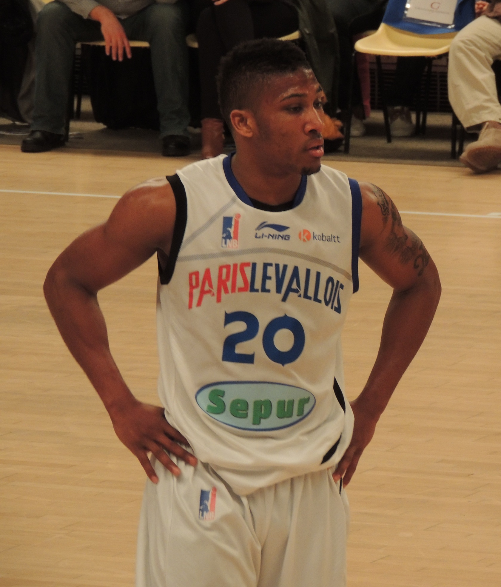 Andrew Albicy playing for Paris-Levallois against Le Havre